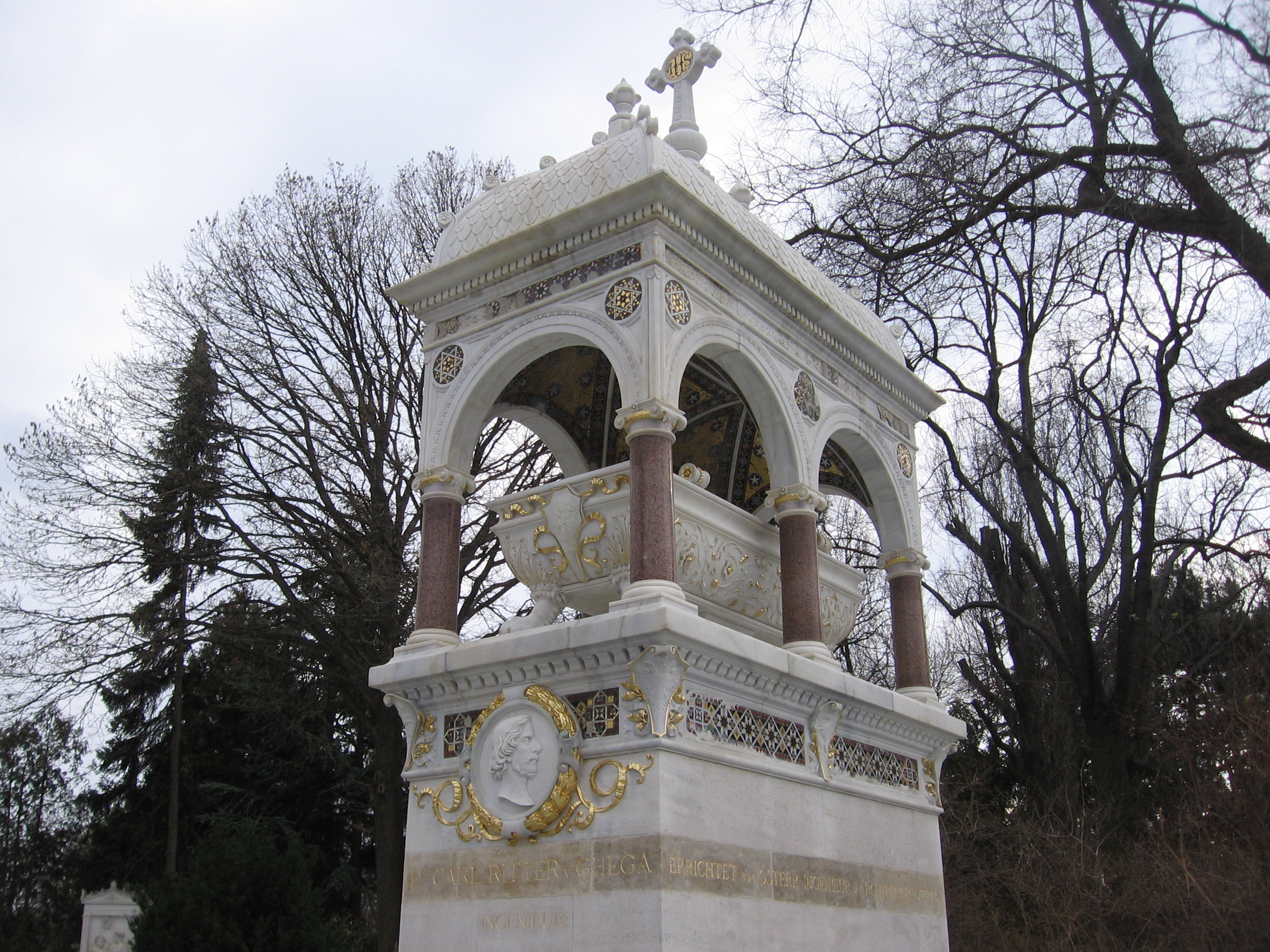 The grave of Carl Ritter von Ghega on the viennese central cementery